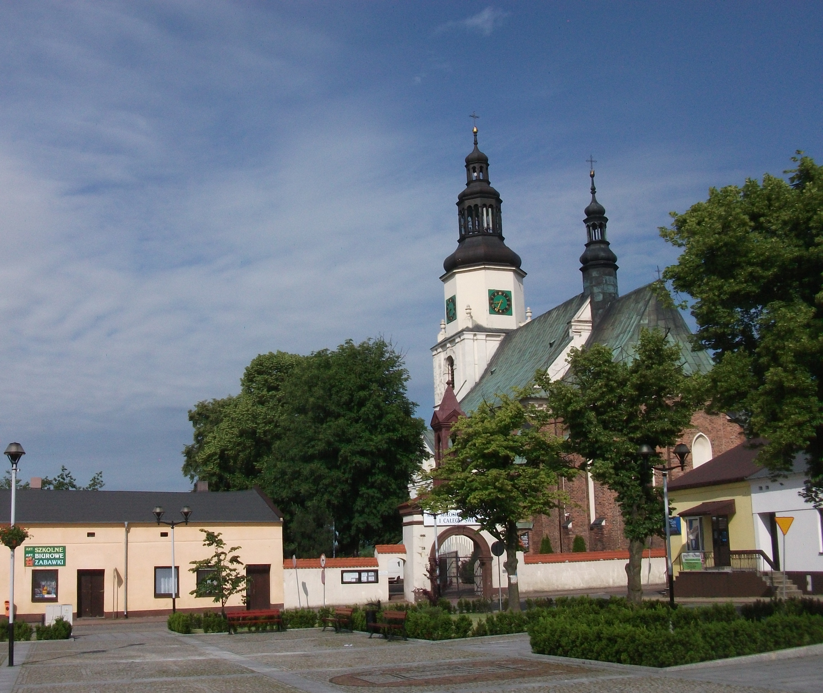 Buildings in the north-west corner of the Market church of St. James the Apostle in Krzepice, Poland